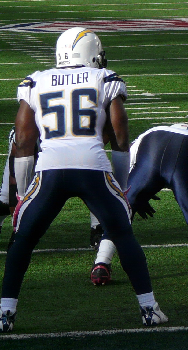 Jets vs. Chargers, 2011.